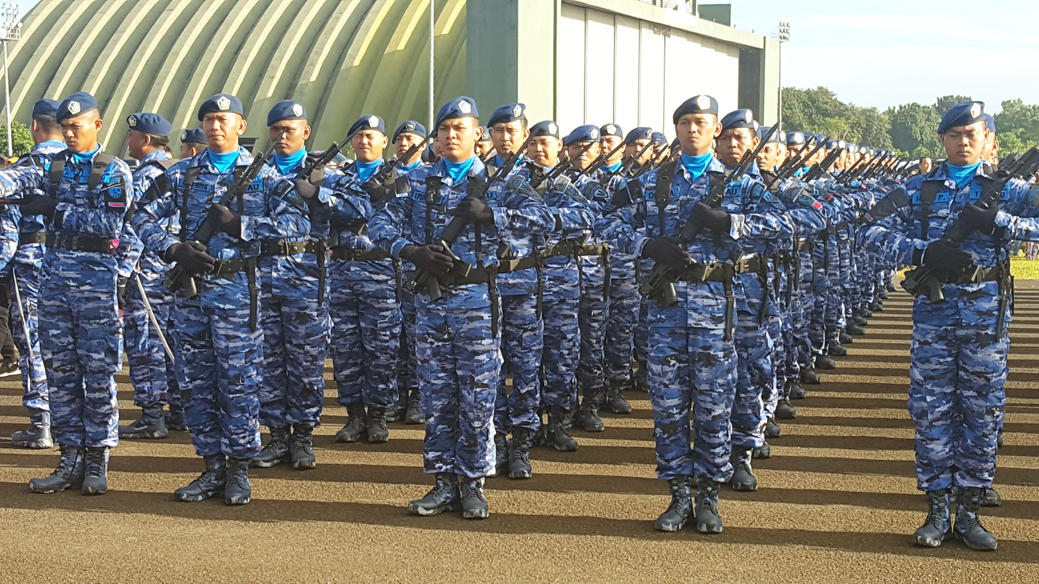 Indonesian Air Force airmen during "Present Arms"